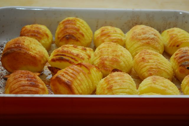 Hasselback potatoes